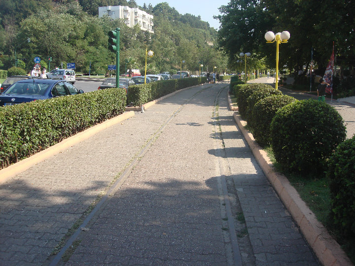 The Eregli-Armutcuk railway in Eregli.